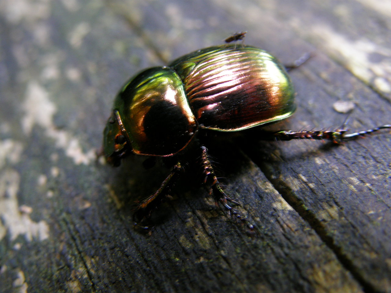 Phelotrupes auratus オオセンチコガネ（雪隠黄金）